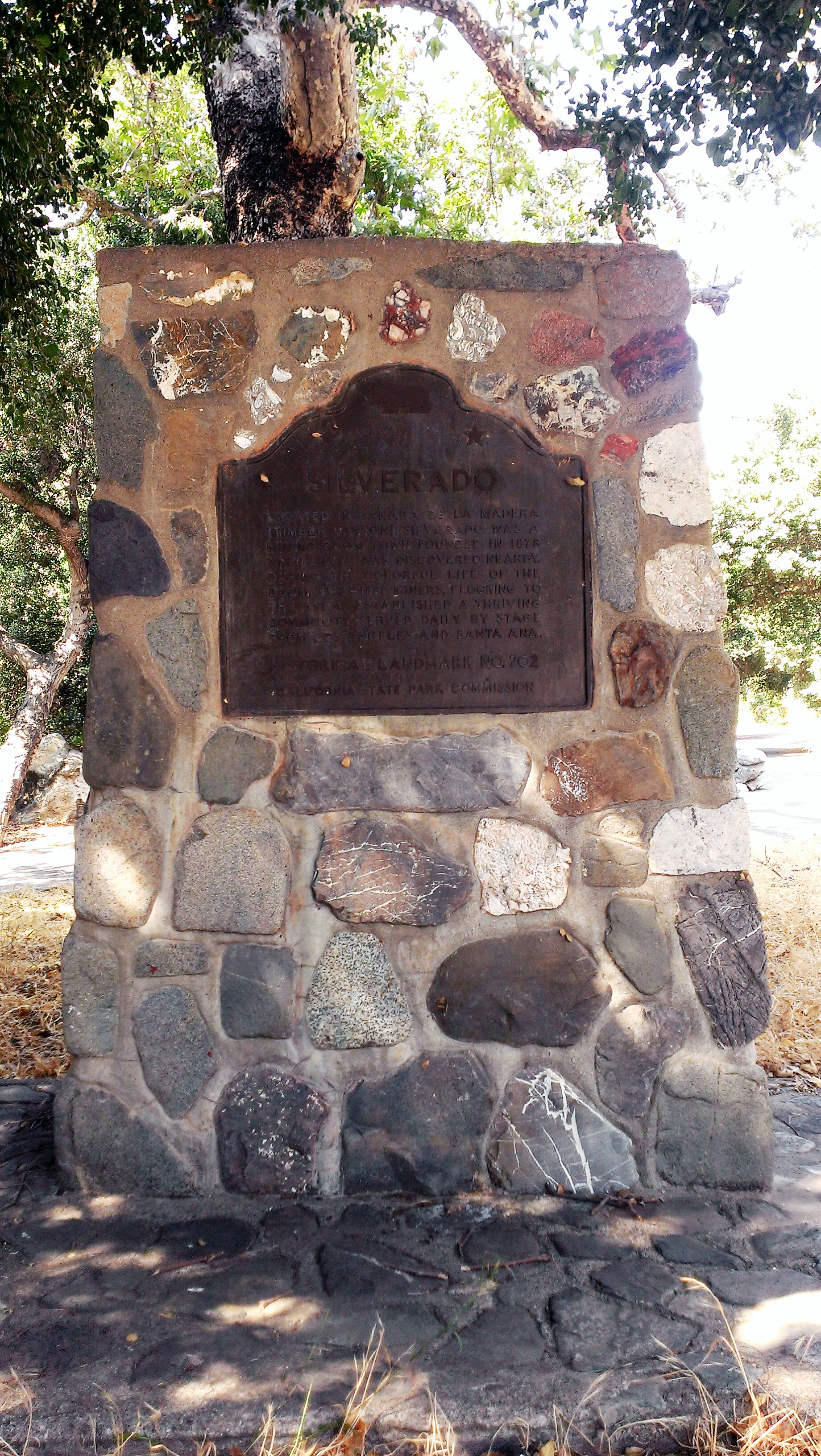 Silverado